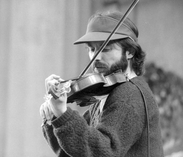 Jean-luc Ponty at Berkeley Jazz Festival 1982. Photo by Brian McMillen /